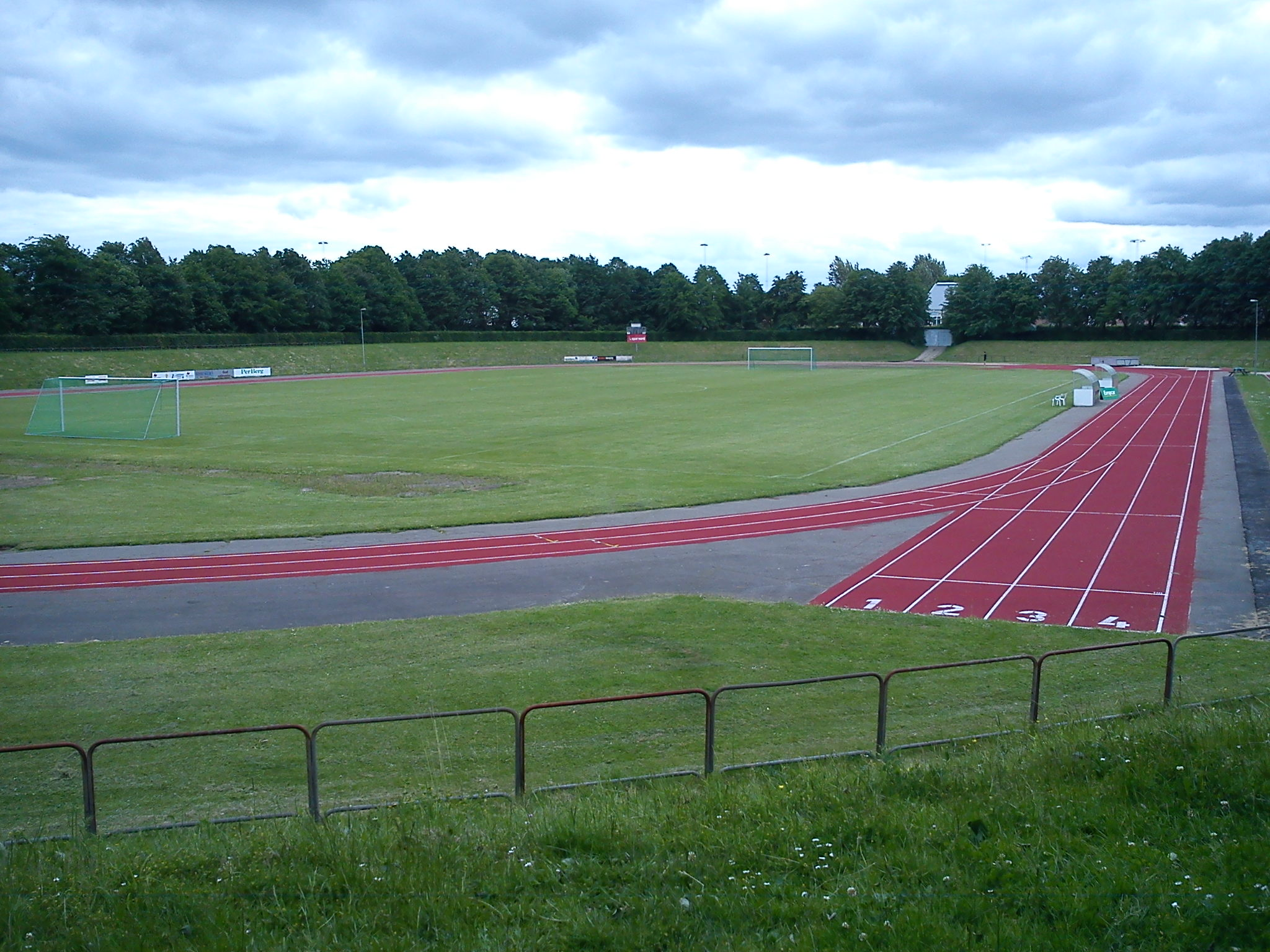 Vejlby Stadion